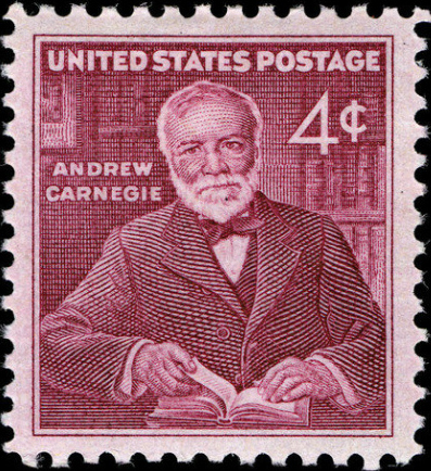 Andrew Carnegie on a US postage stamp